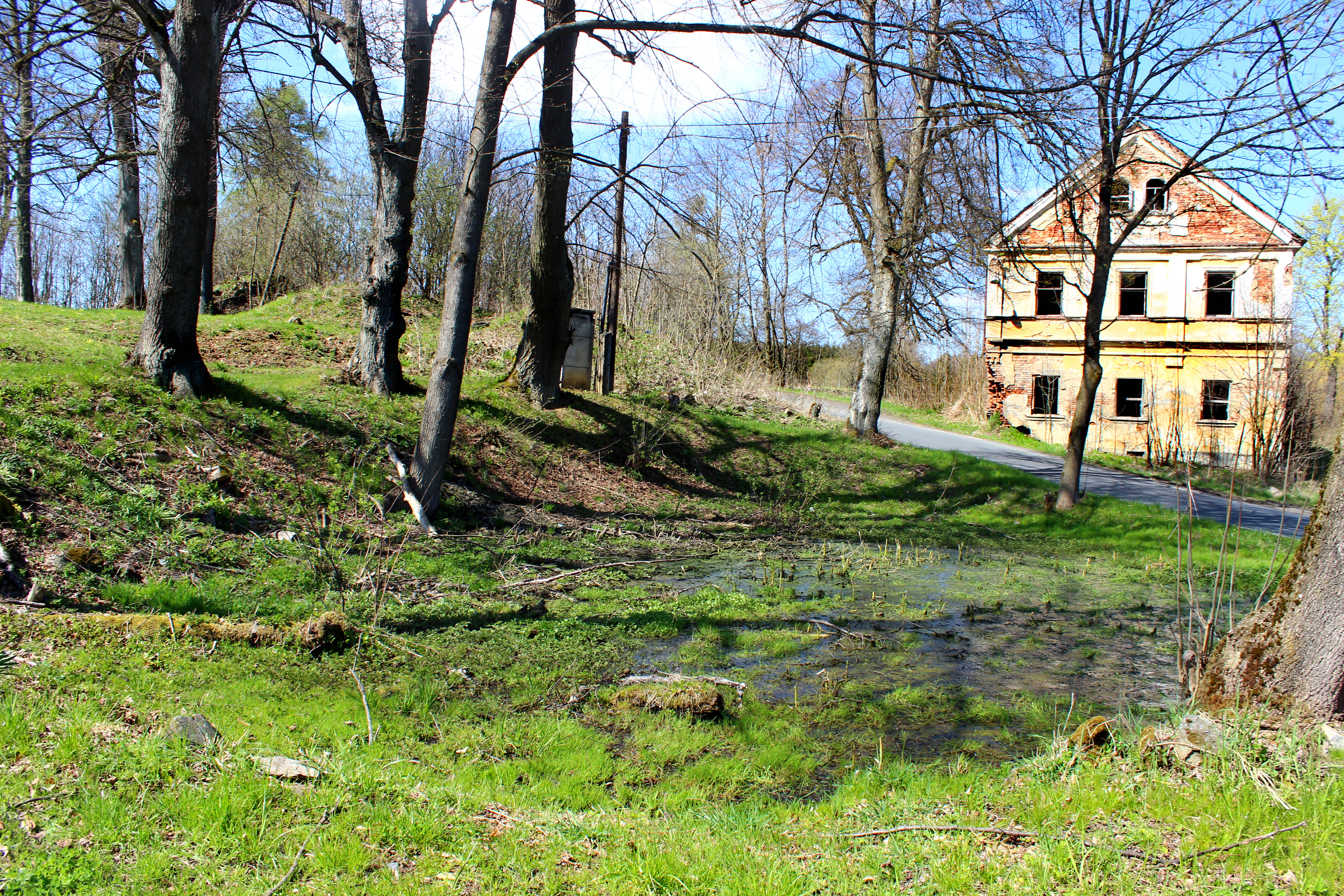 Horní Kramolín, part of Teplá, Czech Republic